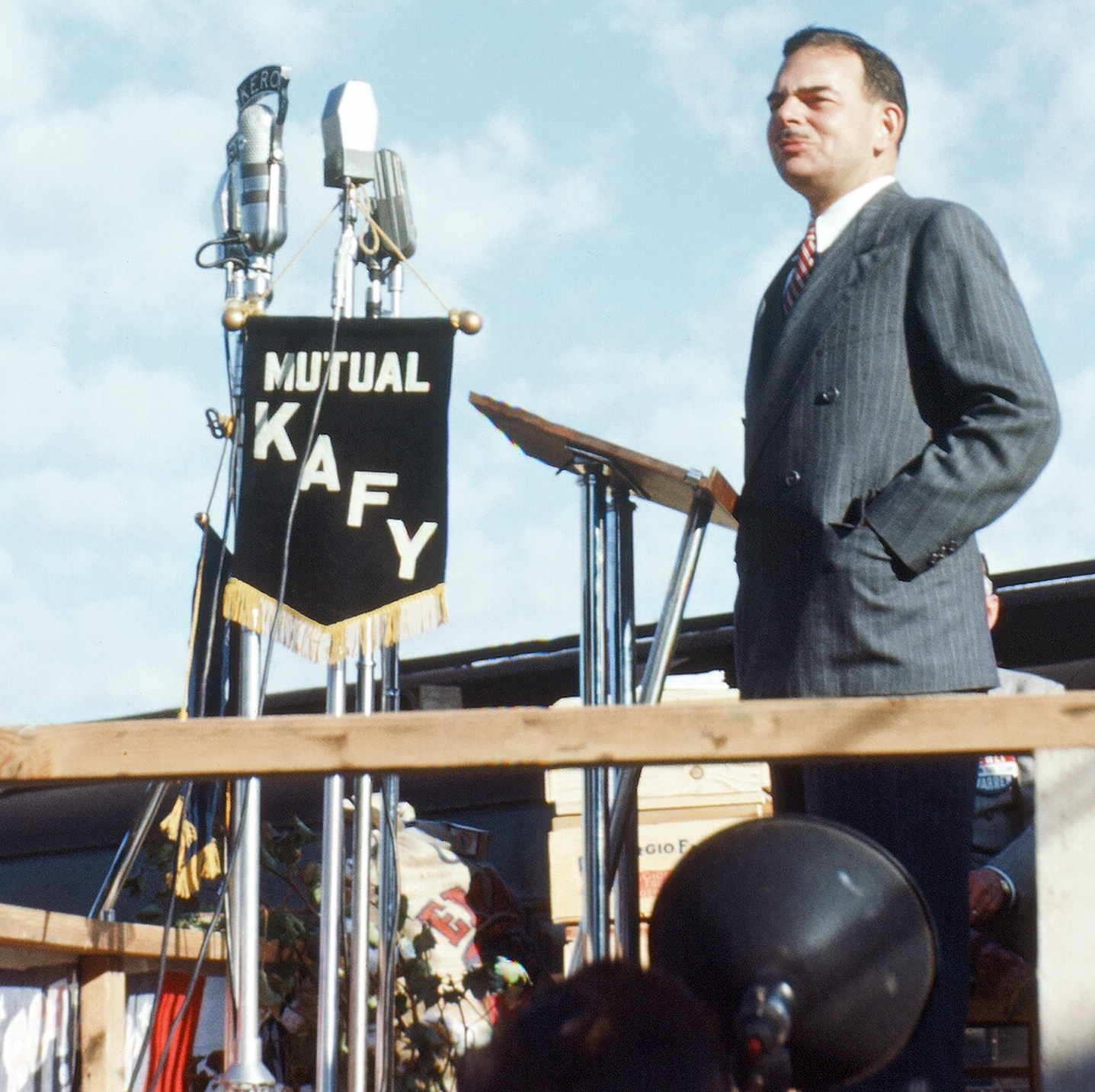 Thomas E. Dewey addressing a campaign event in Bakersfield in 1948.